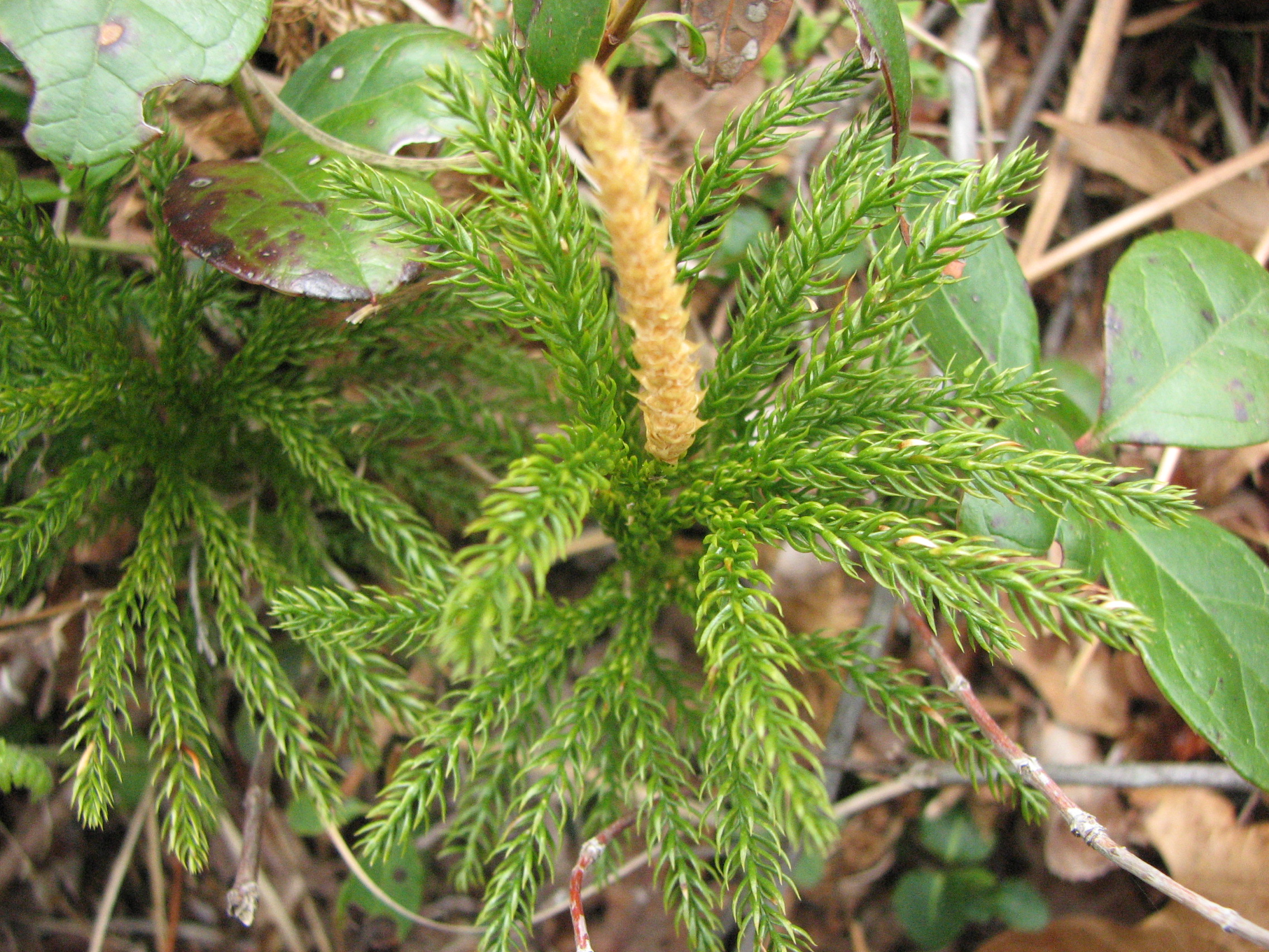 Fertile Lycopodium hickeyi. Taken at The Nature Conservancy's Long Pond Preserve, Monroe County, Pennsylvania.